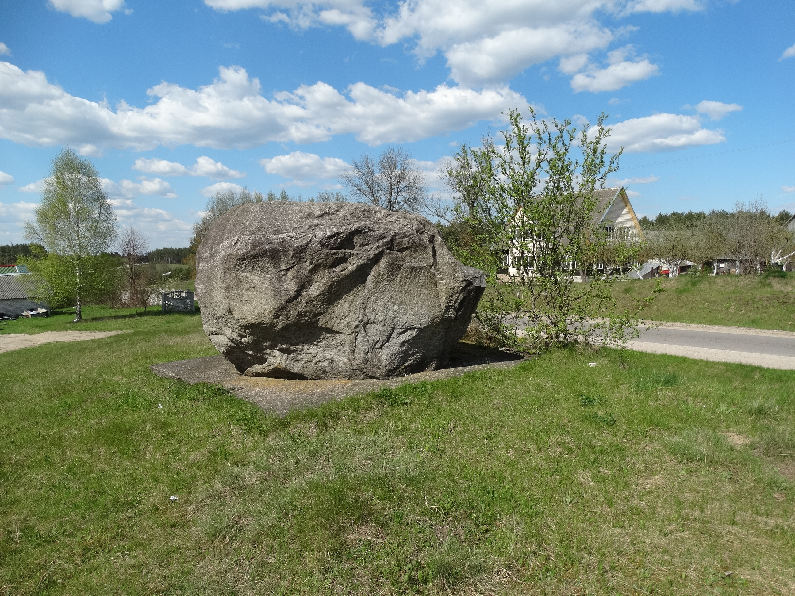 Tetėnai, Šalčininkai District, Lithuania